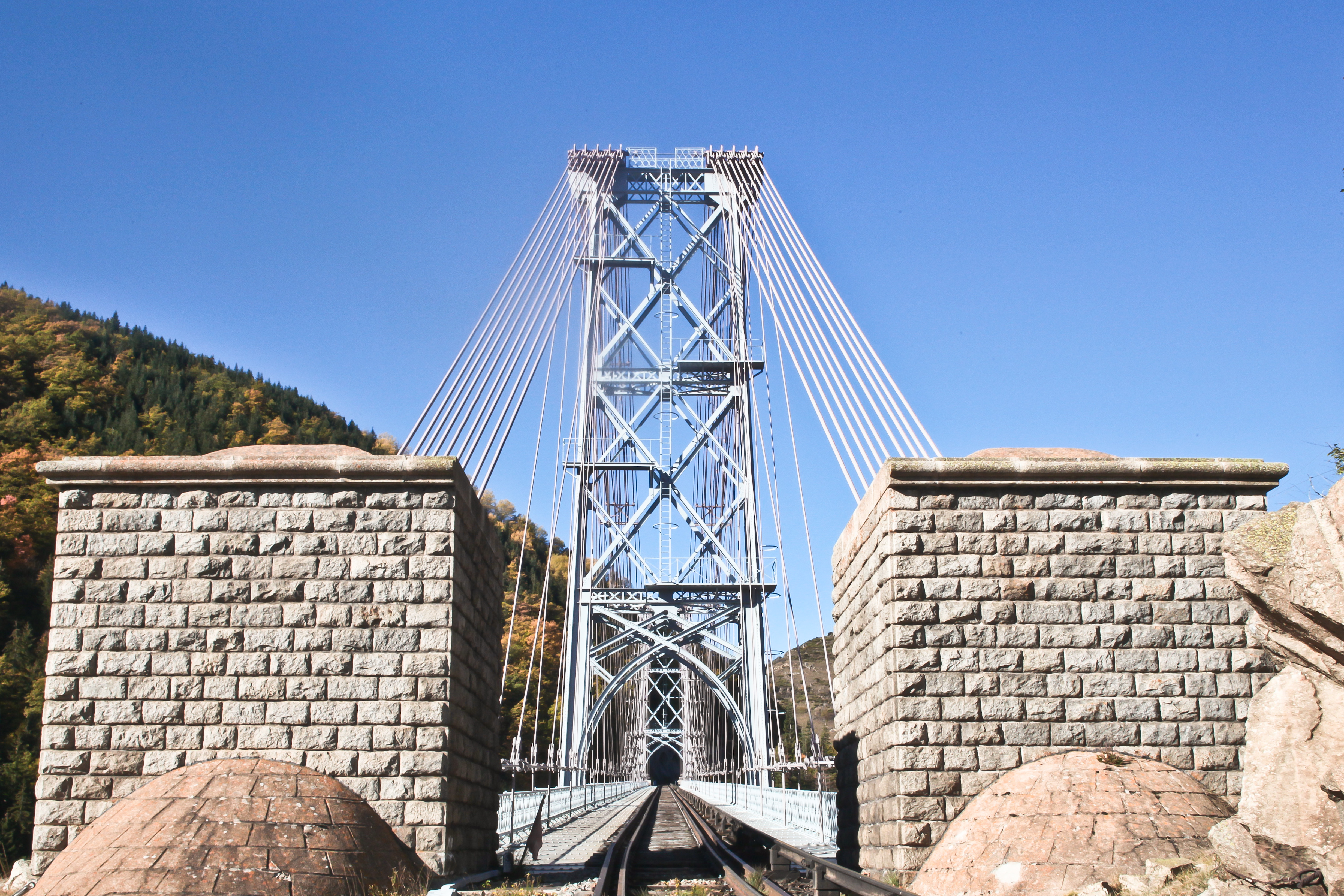 Gisclard's bridge (Cassagne's bridge), Sauto, France, looking west